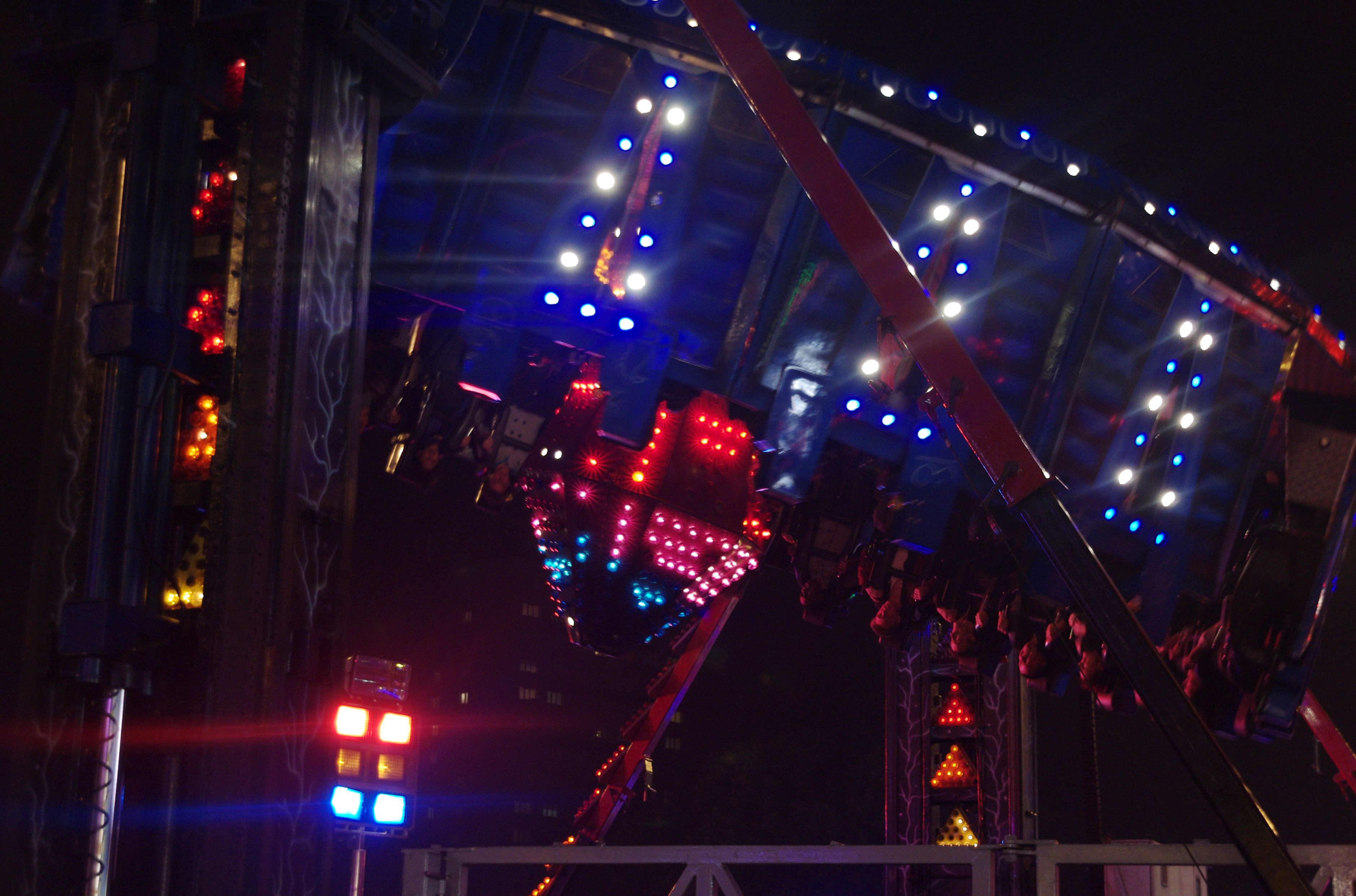 A rather nasty ride whose name I can't see at The Nottingham Goose Fair.